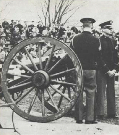 Skipper, Virginia Tech's cannon, during its inaugural game - a 35-20 win over VMI.